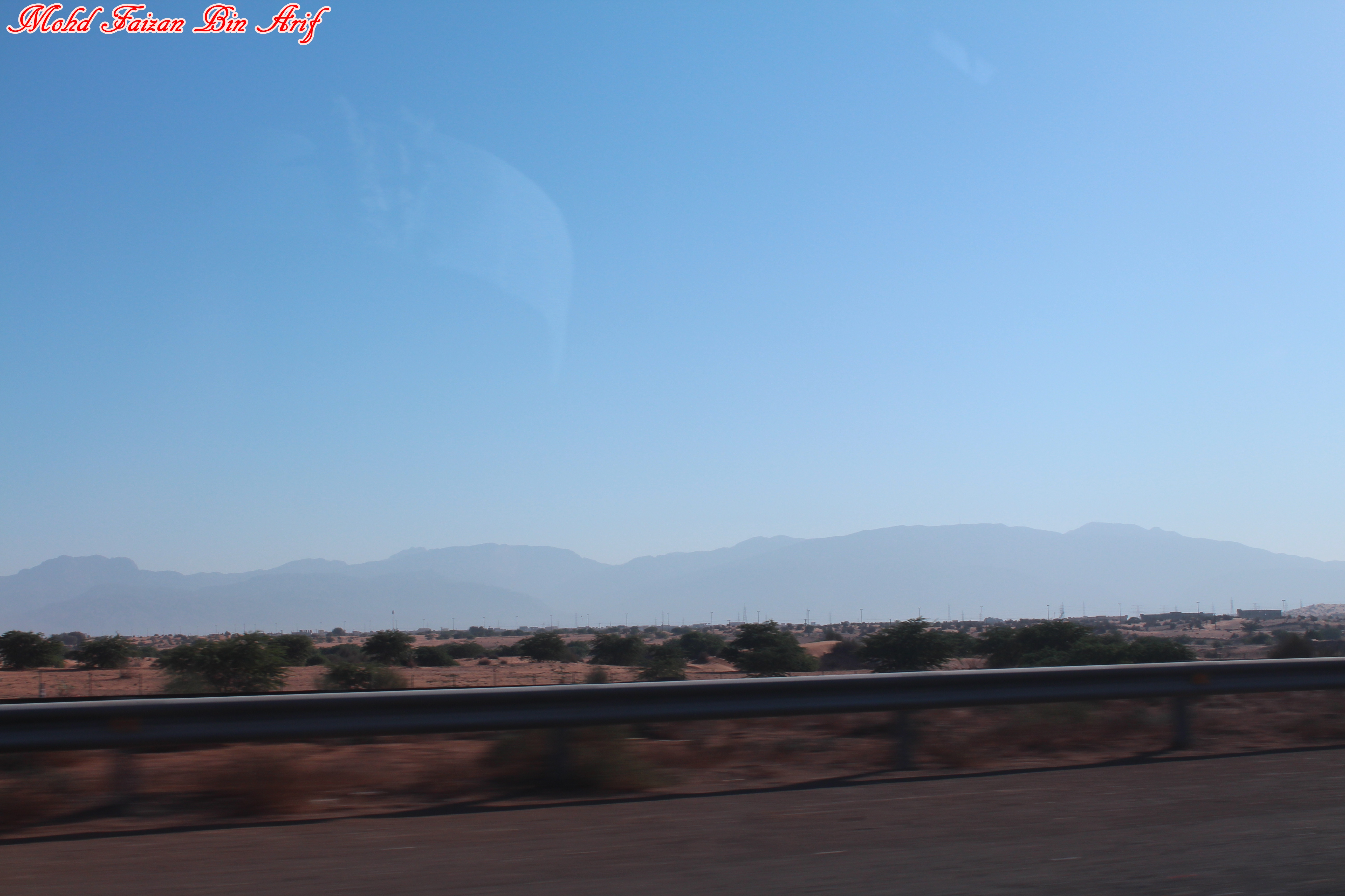 Sheikh Mohammed Bin Zayed Rd - Ras al Khaimah - United Arab Emirates